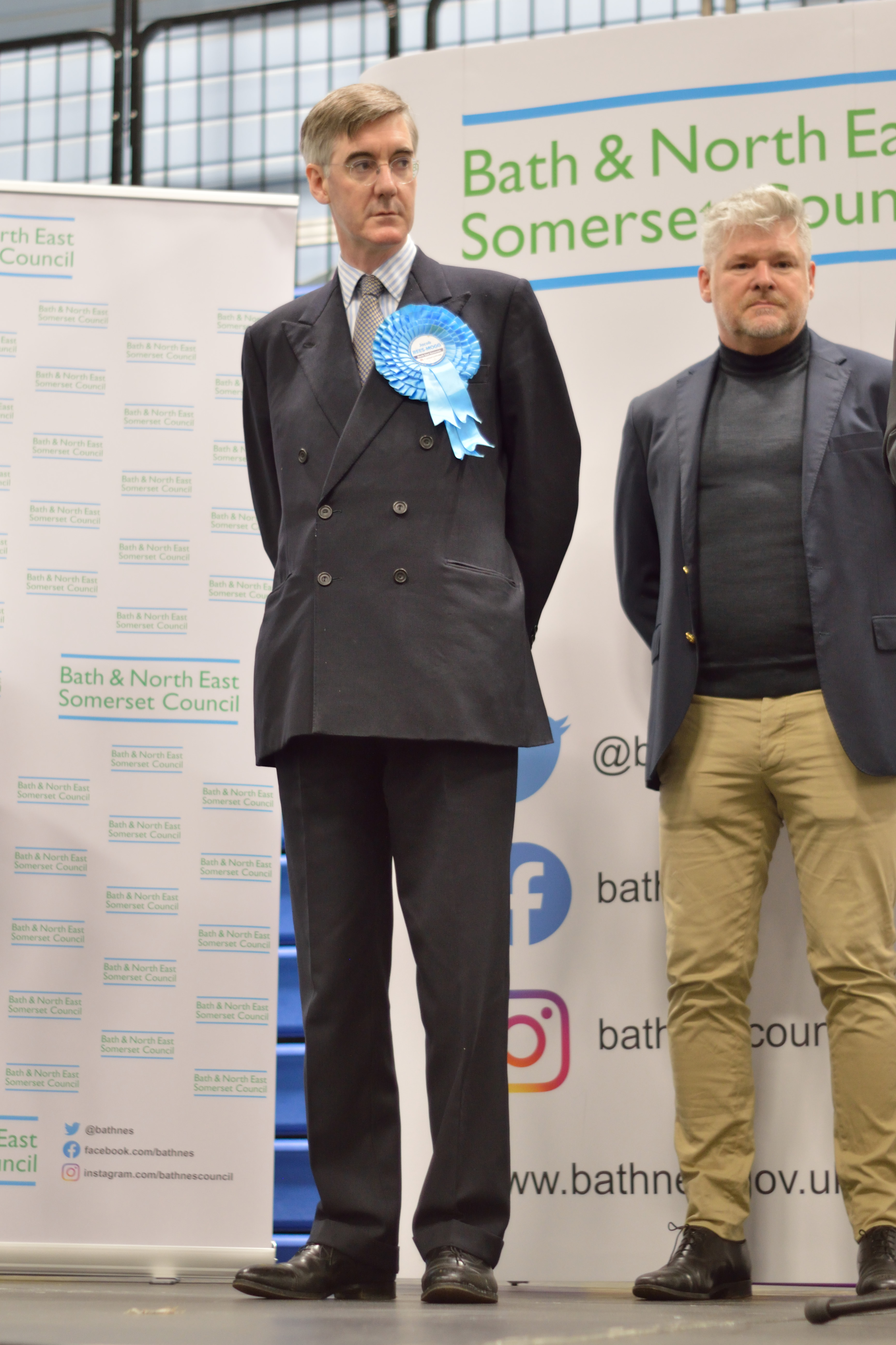 Jacob Rees-Mogg at the declaration of results for the 2019 United Kingdom general election, held in the University of Bath Sports Training Village hall. The Independent candidate Shaun Hughes is alongside him.